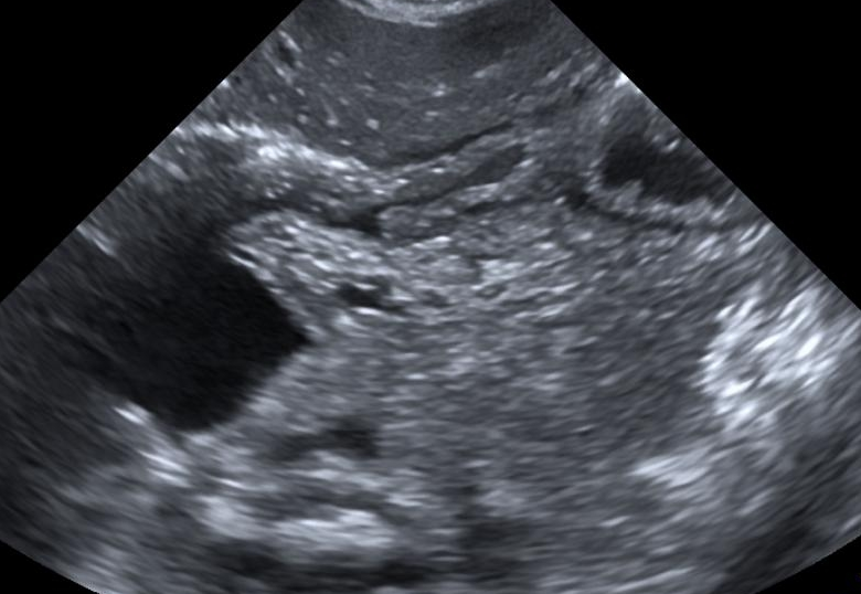 Duodenal atresia neonate ultrasound double bubble